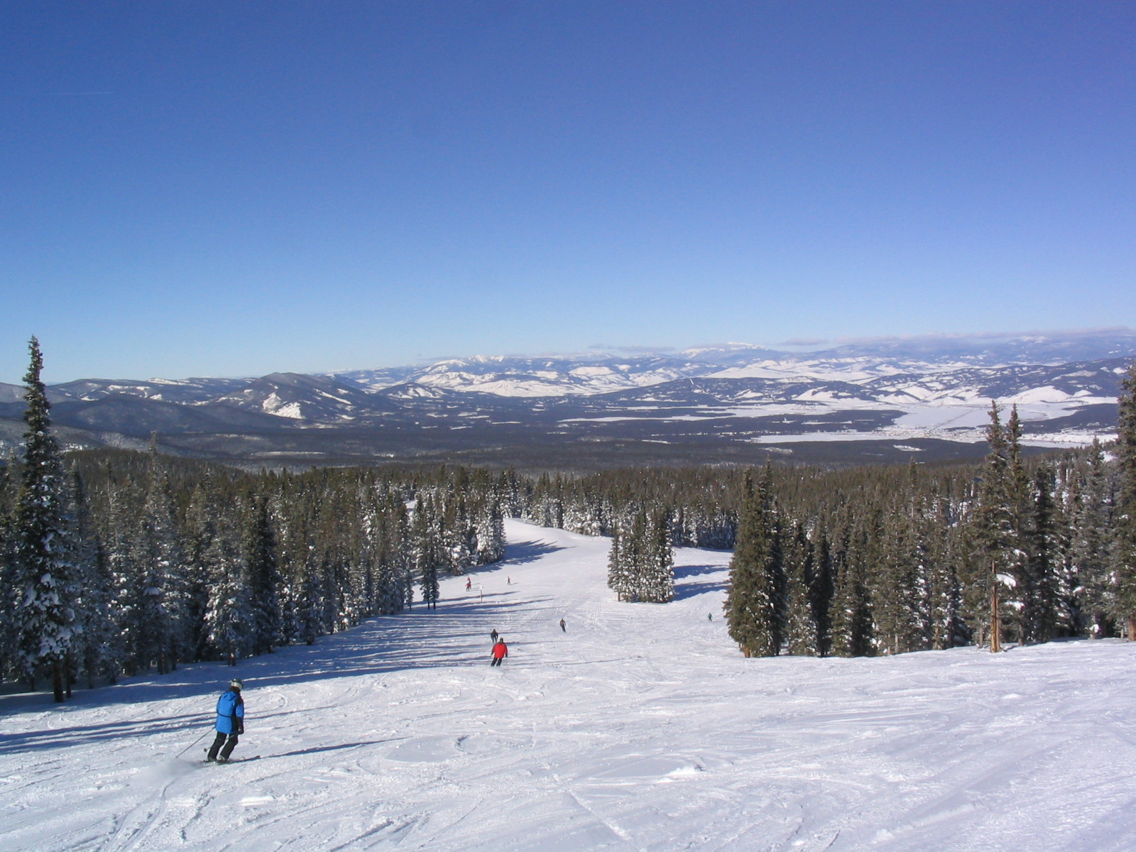 Ski trail near the top of Winter Park Resort. Image taken by DebateLord on January 5, 2006.